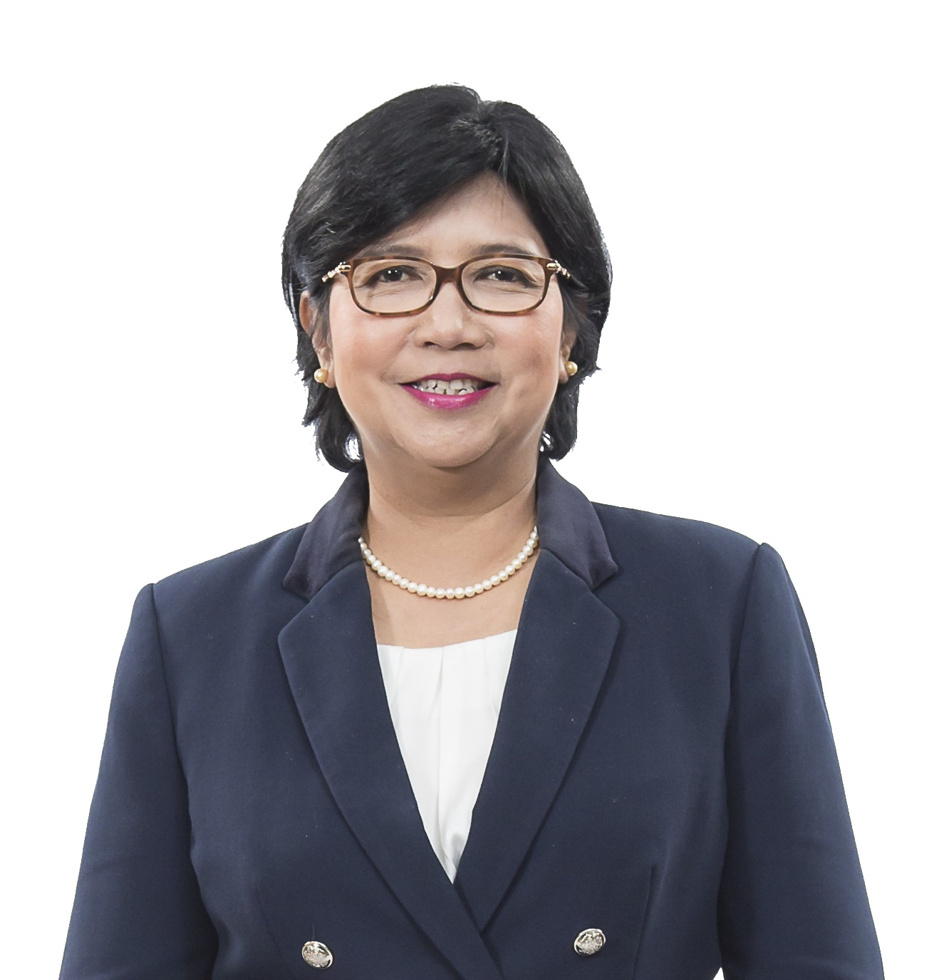 Destry Damayanti Photo, Senior Deputy Governor Bank Indonesia